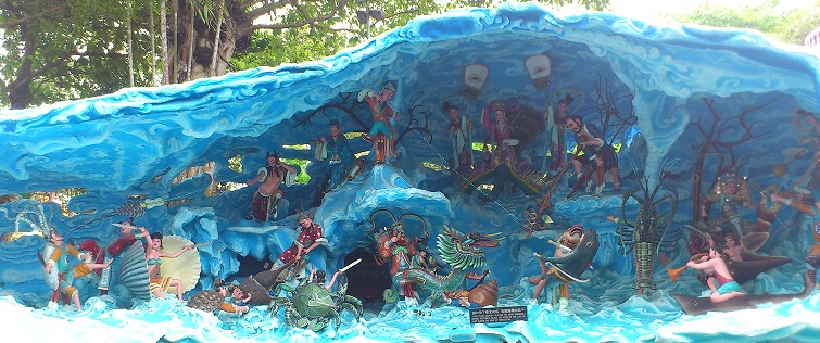 Diorama of the Eight Immortals battling the Dragon King of the East Sea and his forces at Haw Par Villa, Singapore